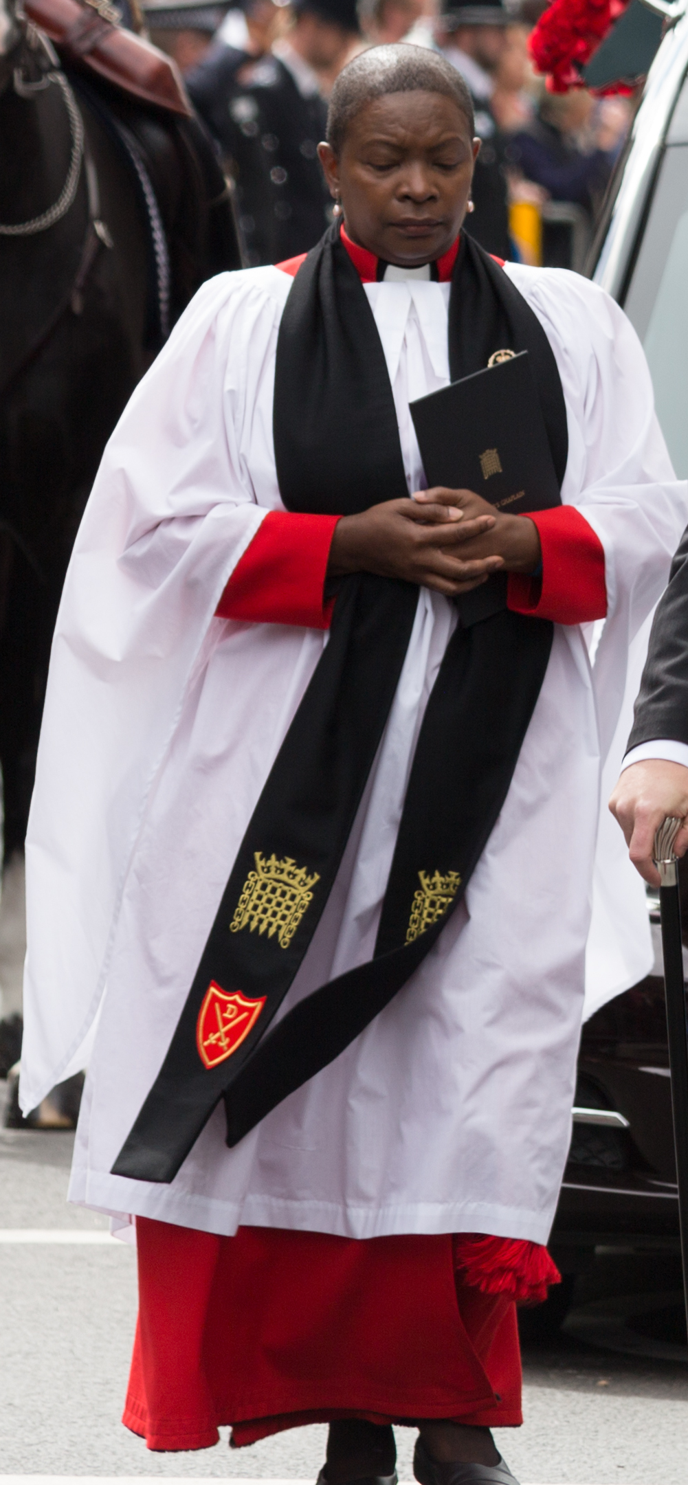 Rose Hudson-Wilkin in the funeral procession of Keith Palmer